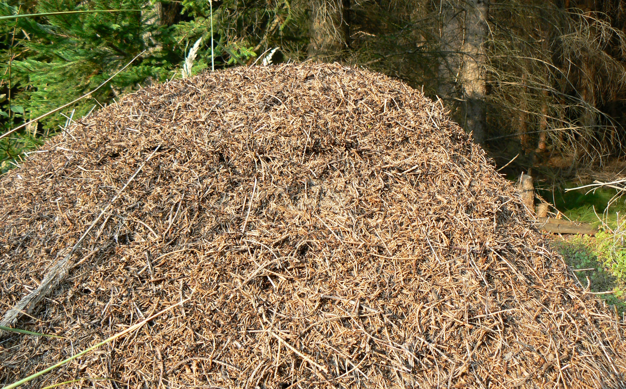 Natural monument Dobrá voda between villages Cyrilov, Jívoví and Dobrá voda, Žďár nad Sázavou District